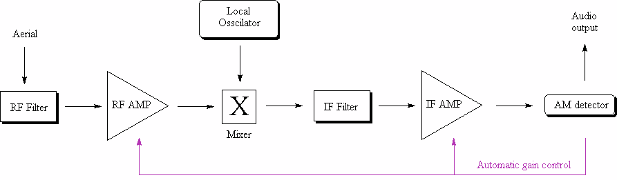 A diagram of a AM radio set which is a superhet with a AGC loop.